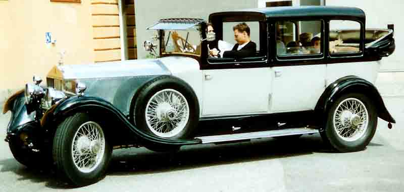 Rolls-Royce New Phantom Landaulette De Ville 1927